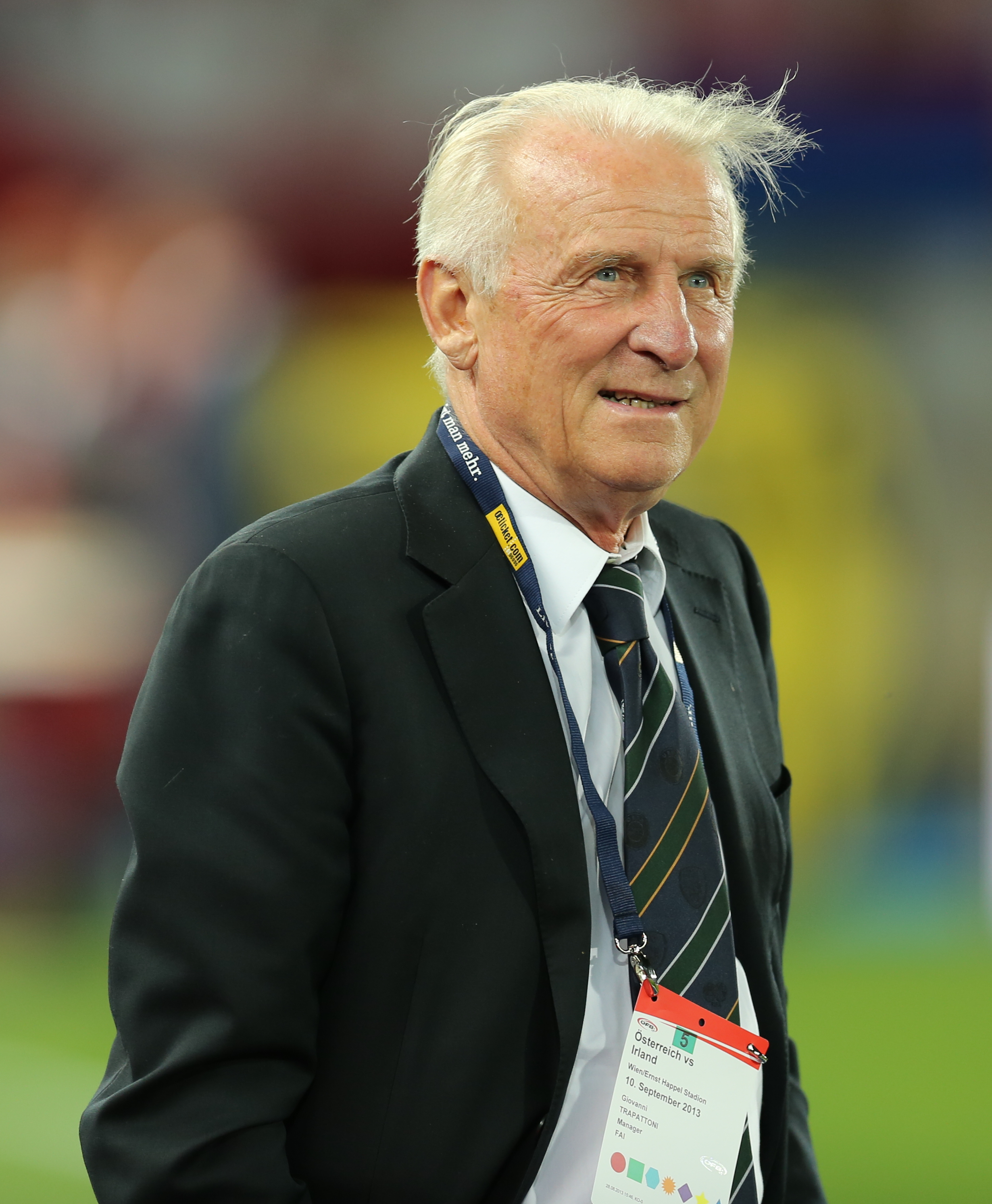 2014 FIFA World Cup qualification (UEFA), Group C: Republic of Ireland national football team at 10. September 2013 before the match against the Austria national football team (0:1) in the Ernst-Happel-Stadion in Vienna. Here: Giovanni Trapattoni, Irish head coach. The making of this work was supported by Wikimedia Austria. For other files made with the support of Wikimedia Austria, please see the category Supported by Wikimedia Österreich.